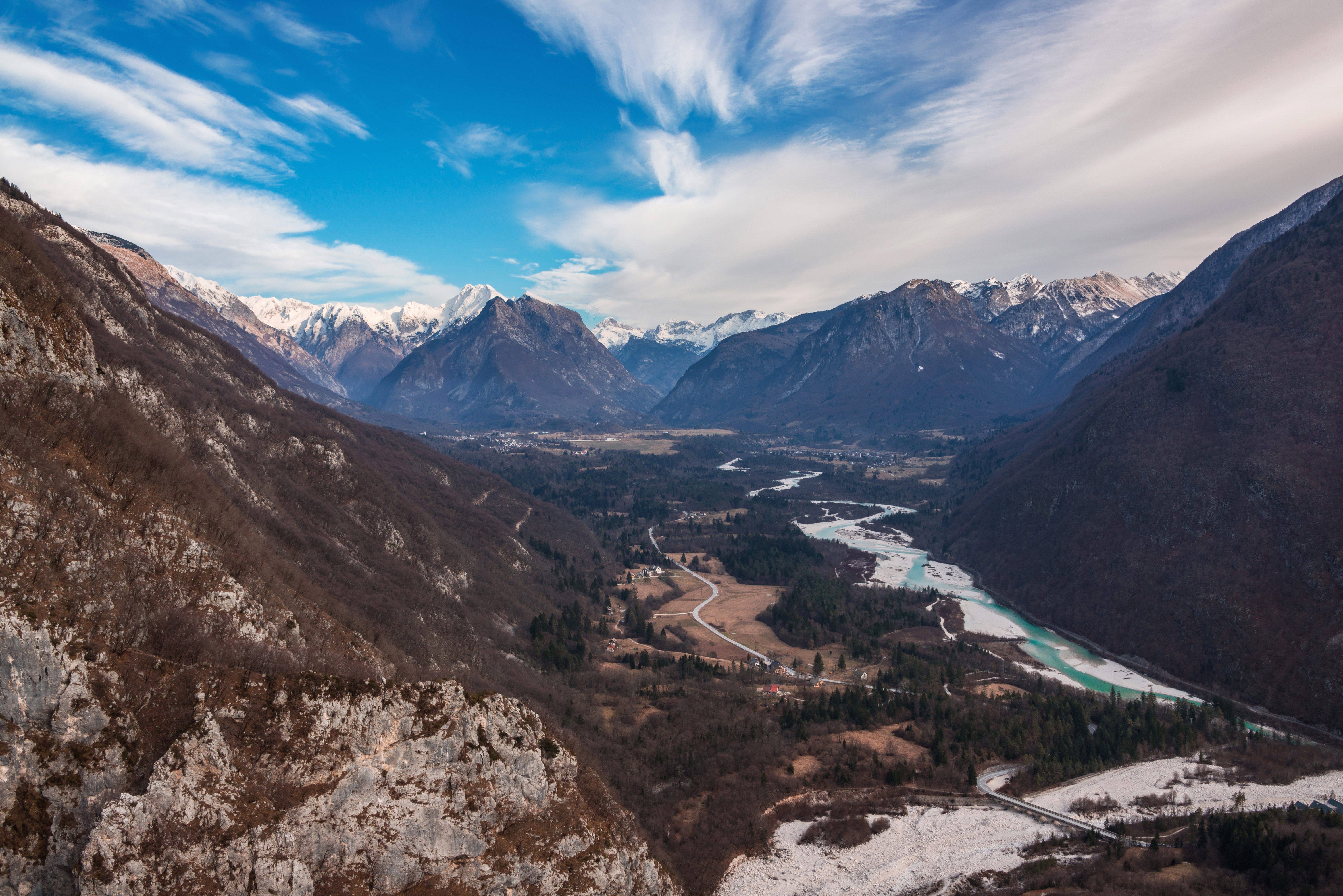 Soča river valley.